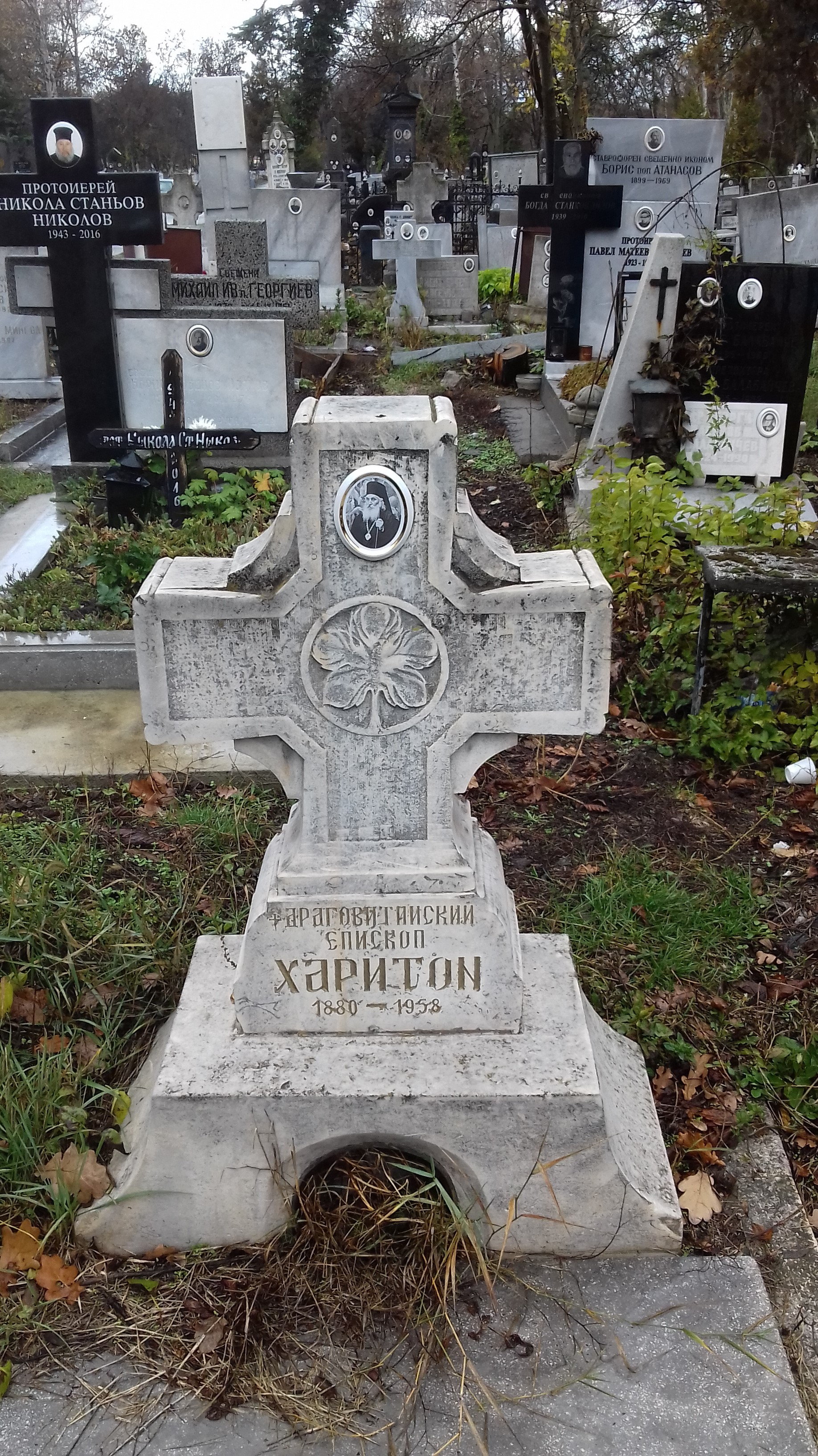 Chariton of Dragovitia Grave